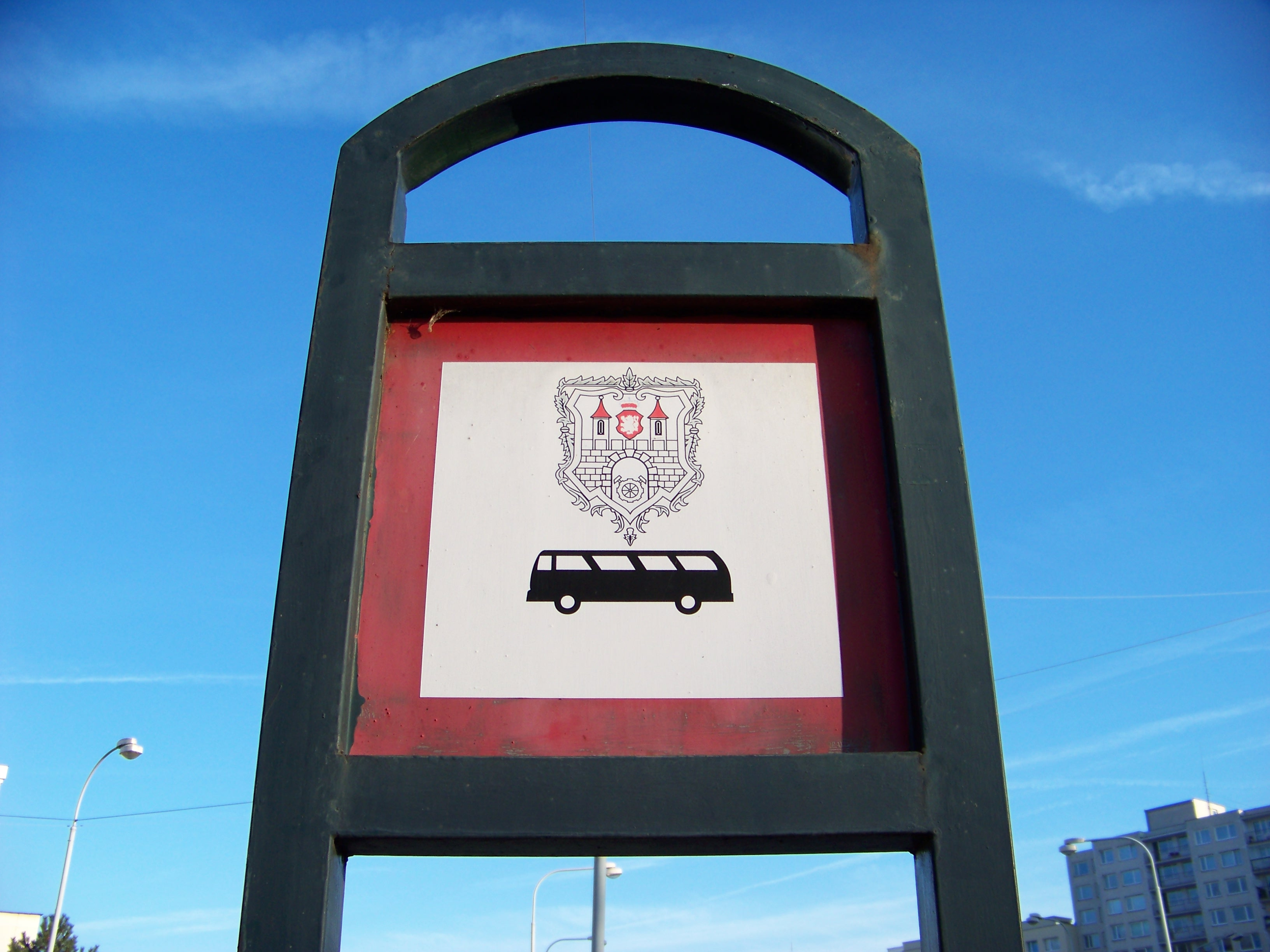 Kralupy nad Vltavou, Mělník District, Central Bohemian Region, the Czech Republic. Erbenova street, bus stop. - OpenStreetMap(Info)